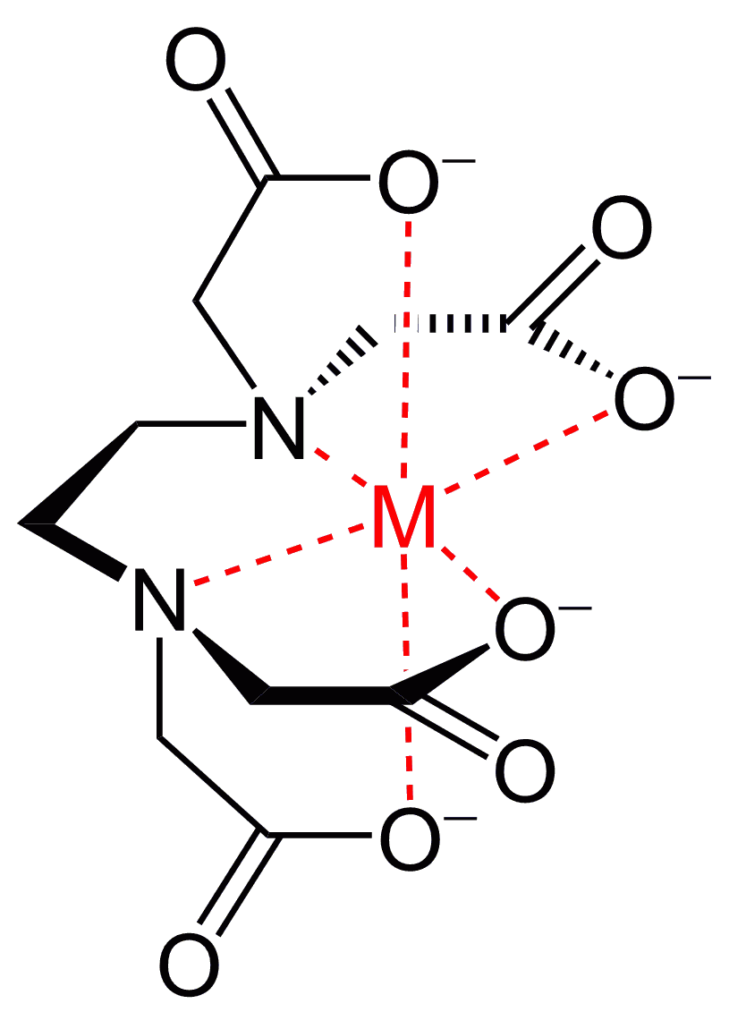 Description: Chemical structure of EDTA chelate Author, date of creation: selfmade by Yikrazuul (origin: Shaddack, 20 October 2005) Source: self-made Copyright: Public Domain (PD) Comments: b/w PNG; ChemWindow